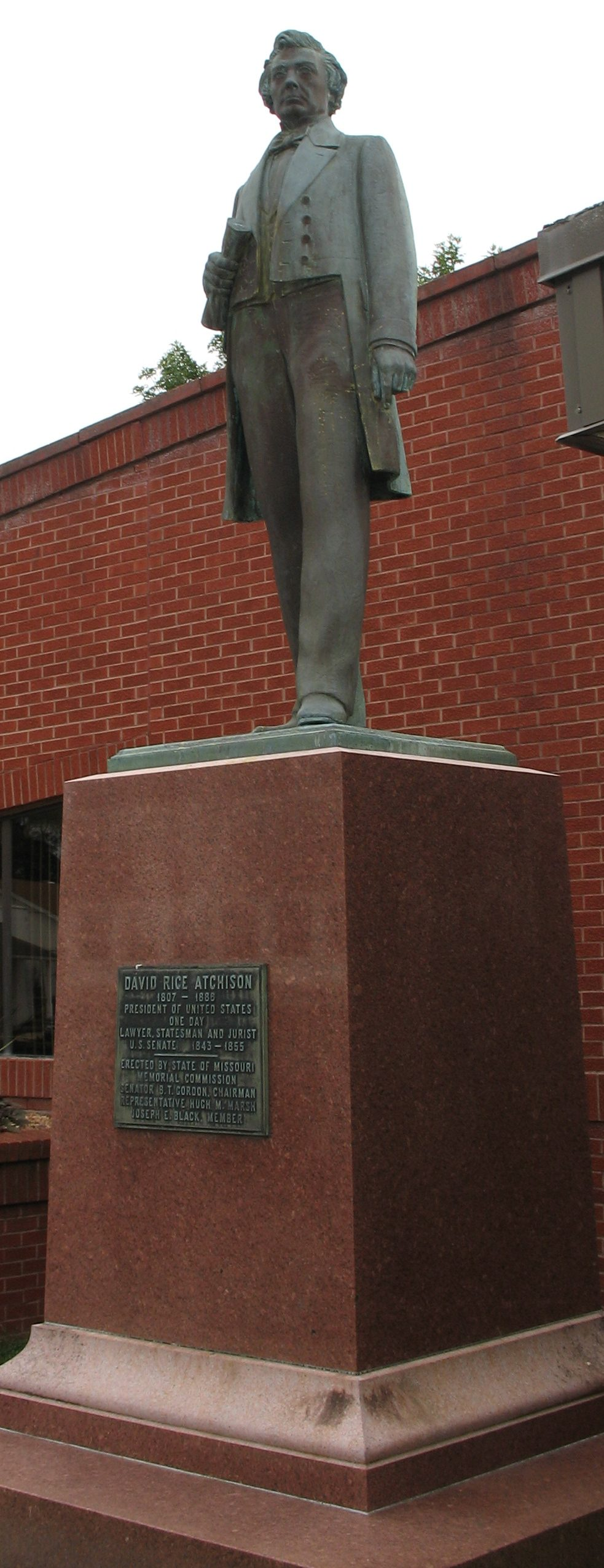 Statue of David Rice Atchison at Clinton County, Missouri Courthouse. Photograph in September 2007 by poster.